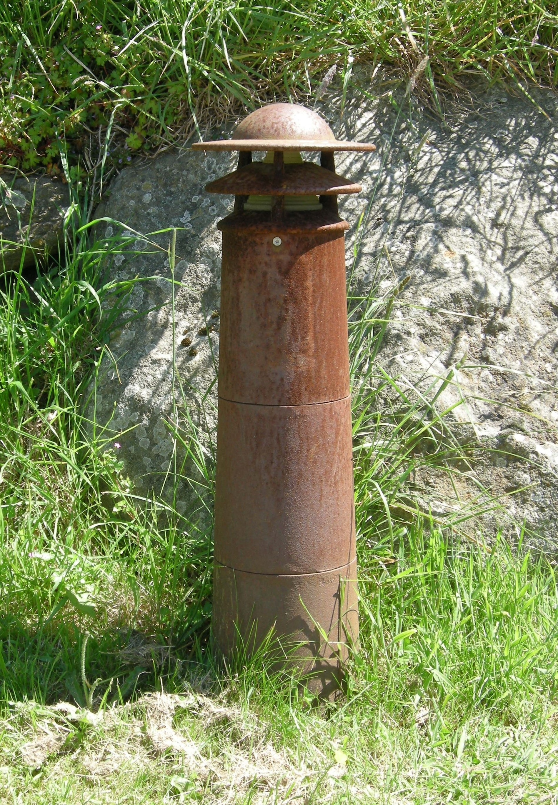 Lighting bollard: photographed at Oriel y Parc Gallery and Visitor Centre, St David's, Pembrokeshire, 31 May 2013